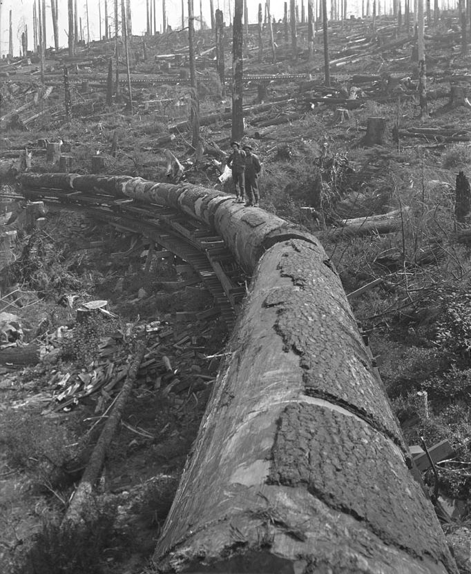 Train load of larch as seen from cab. Bridal Veil Lumber Company, Oregon. 1910. Name of Expedition: Huron H. Smith Expedition to Oregon Participants: Huron H. Smith Expedition Start Date: 1910 Expedition End Date: 1911 Purpose or Aims: Collecting Botany specimens, taking portraits of trees Location: Palmer, Oregon, U.S.A., North America Original material: 5x7 glass negative Digital Identifier: CSB33004 Learn more about The Field Museum's